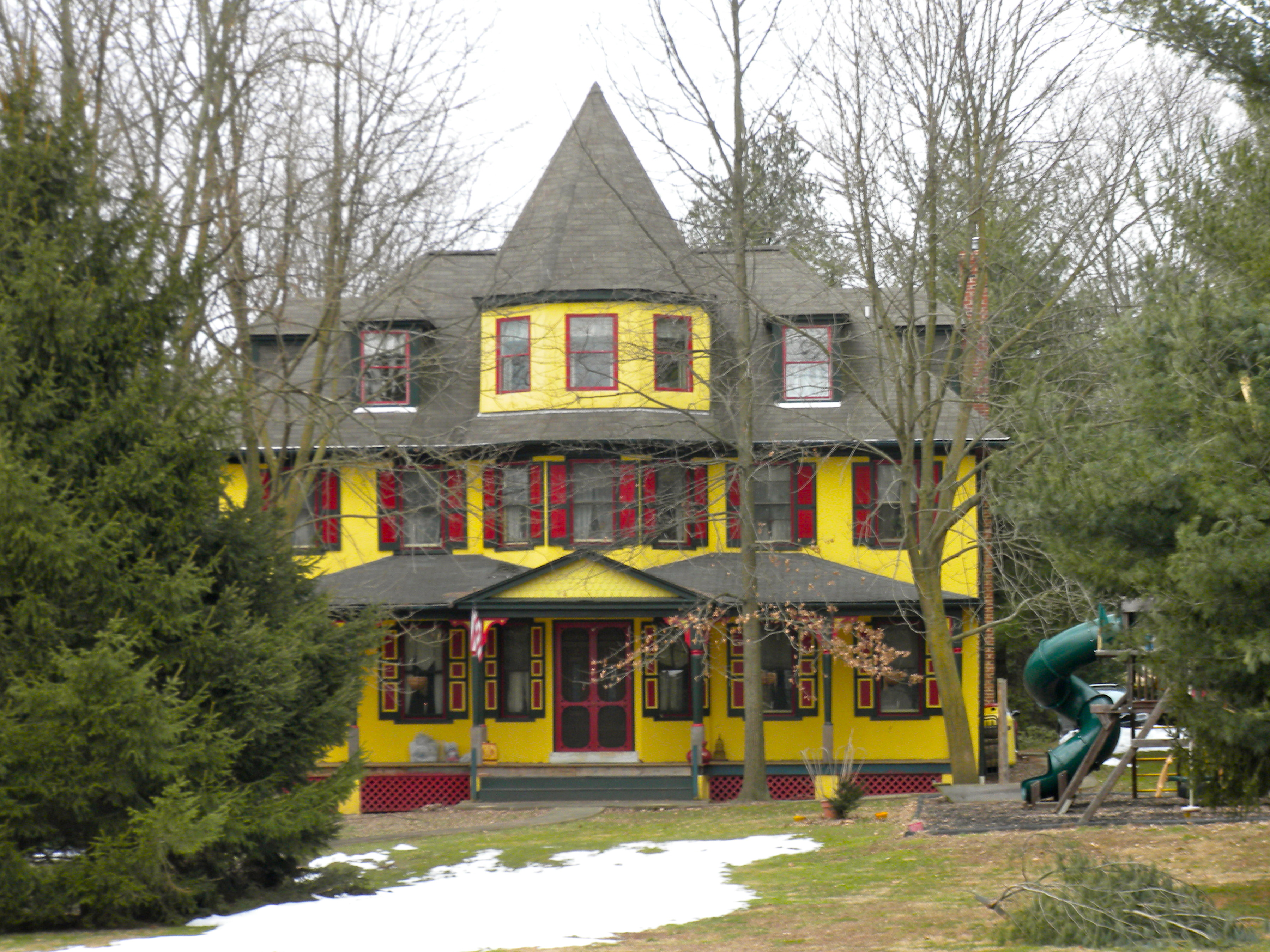 Asa Walton, just off Strasburg Road, in Chester County, PA. On NRHP since September 18, 1985 Strasburg and Old Wilmington Roads, near Coatesville, but in East Fallowfield Township. 1 of 3 Victorian houses in an otherwise "colonial" area